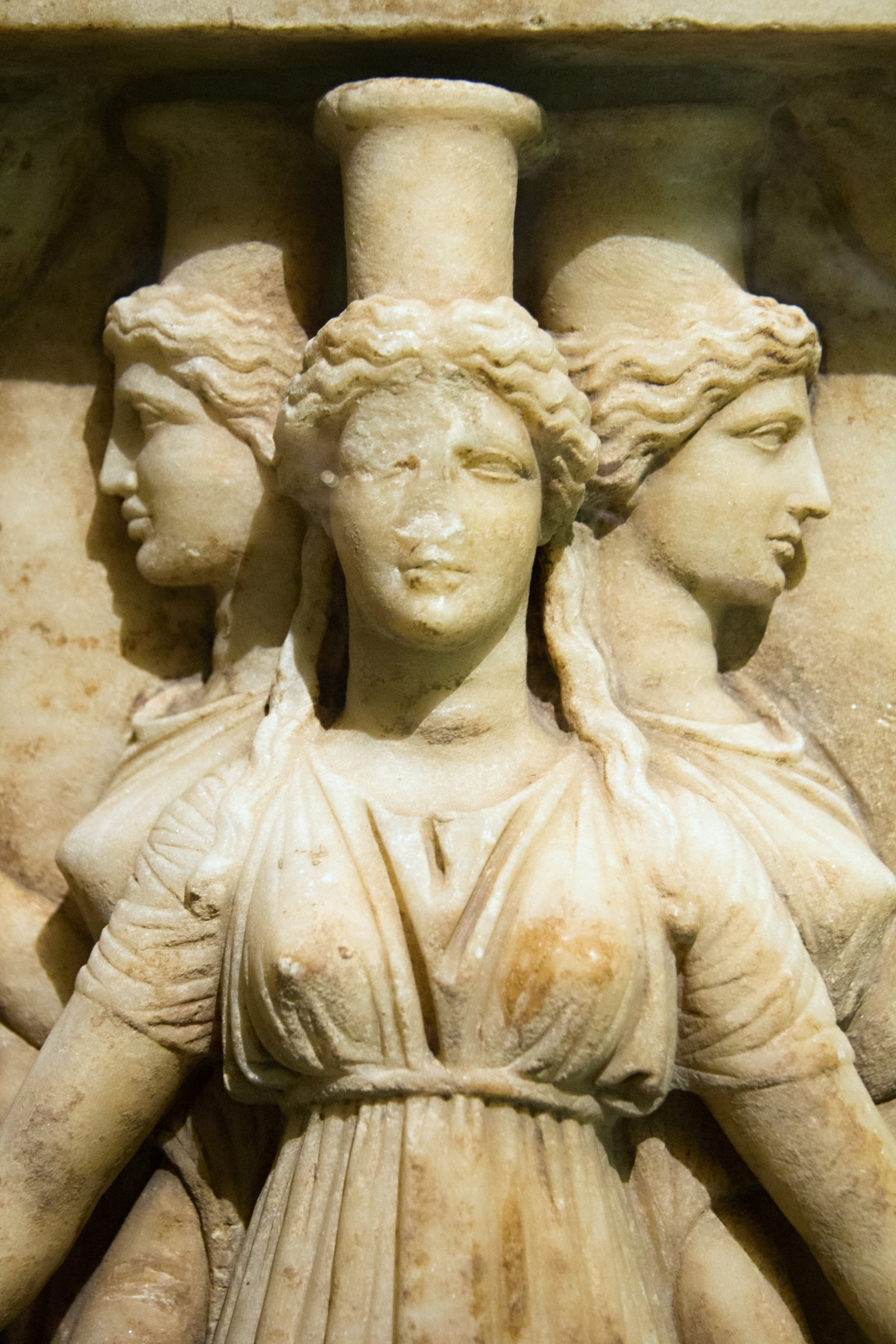 Relief of triplicate Hekate. Three female figures framed in aedicula, with high poloi on their heads, dressed in chiton and peplos, holding torches in their hands. Marble (small), Hadrian classicism. NG Prague, Kinský Palace, NM-H10 4742.